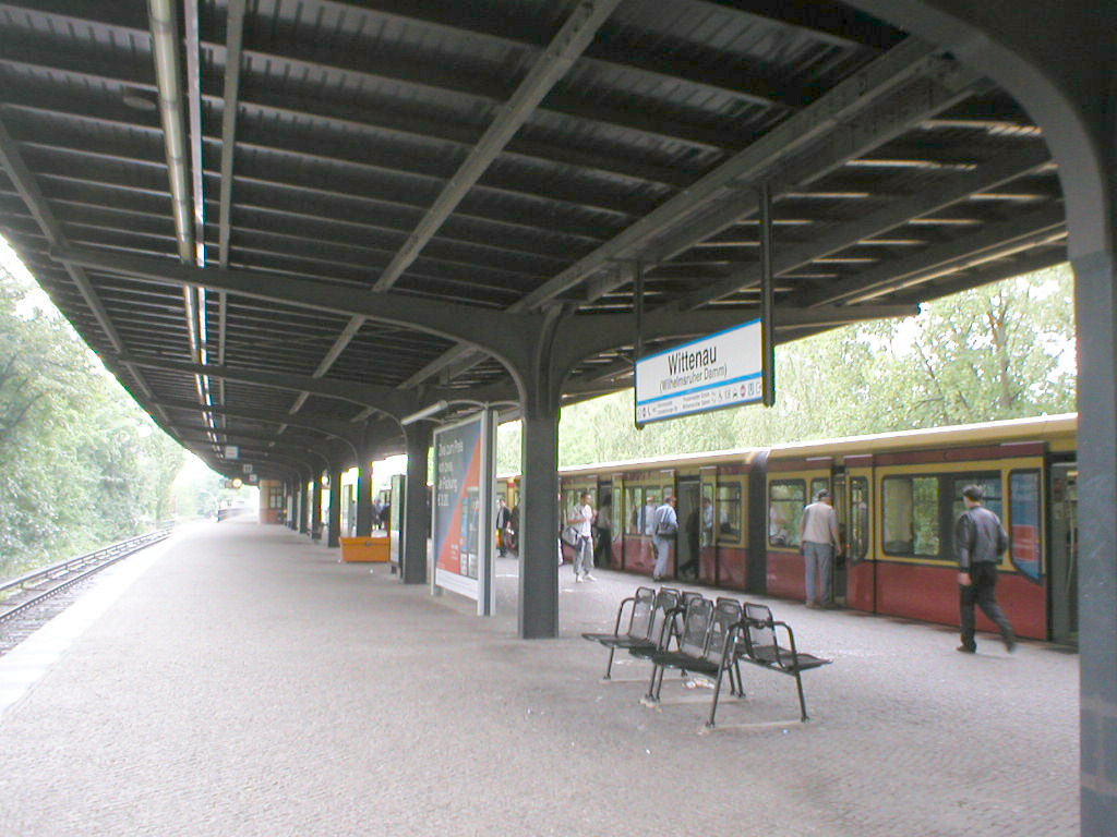 Wittenau train station, Berlin, Germany